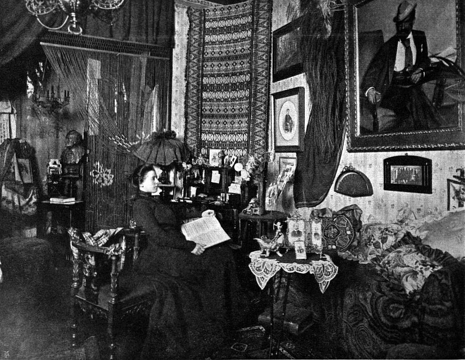 Opera soprano Marie Gutheil-Schoder (1874-1935) in her Viennese home.